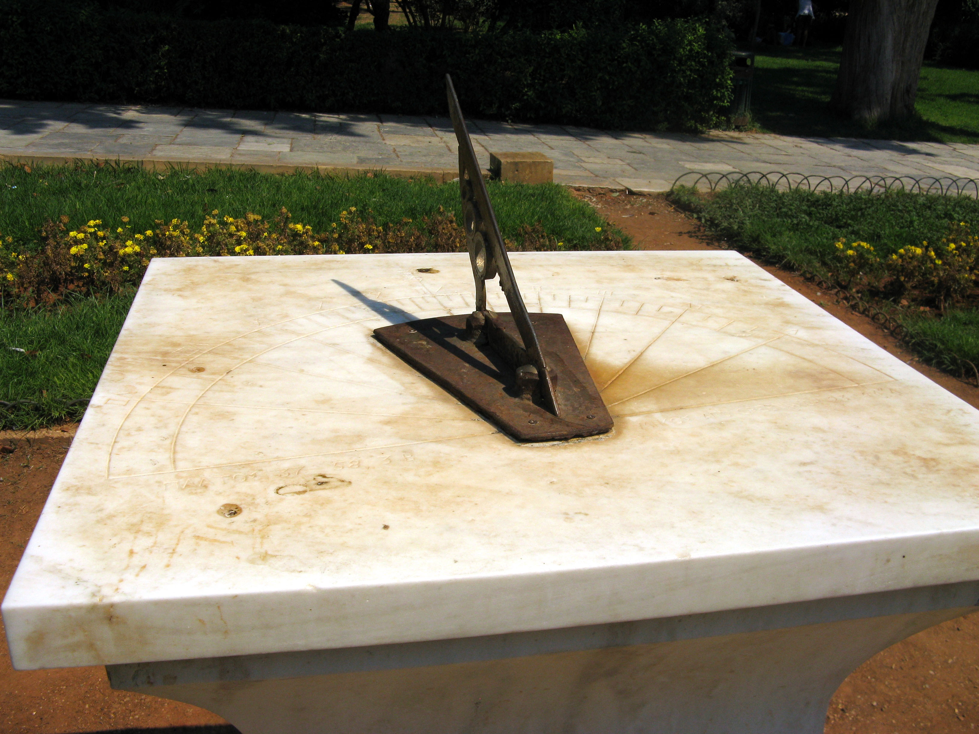 Sundial at Athens national park.